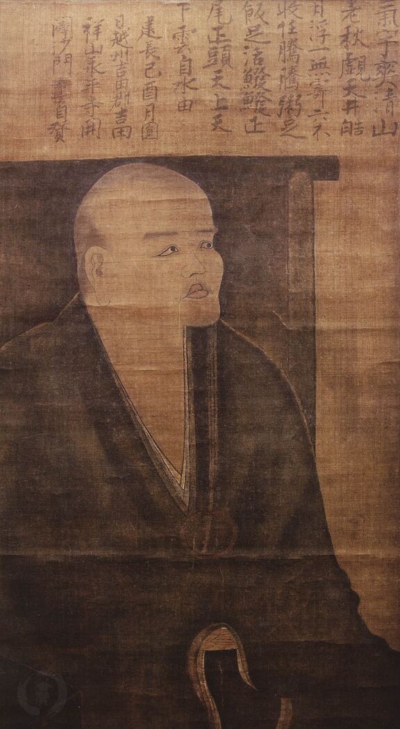 Dōgen watching the moon. Hōkyōji monastery, Fukui prefecture